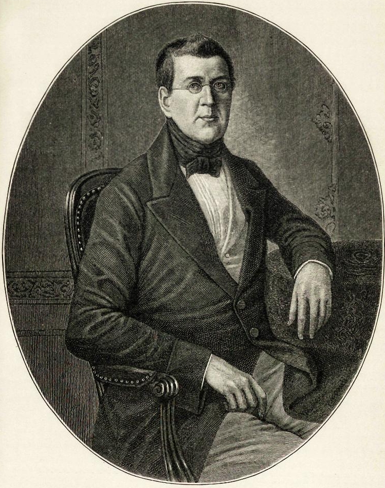 Viktor Nikitich Panine